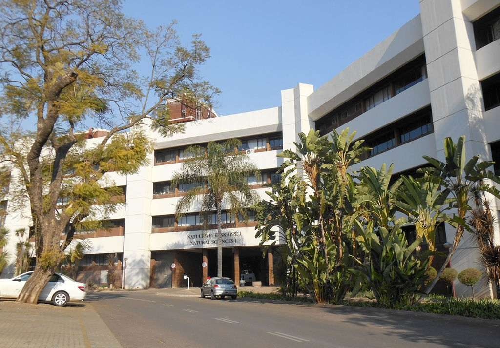 The Natural Science I Building on Hatfield campus of the University of Pretoria